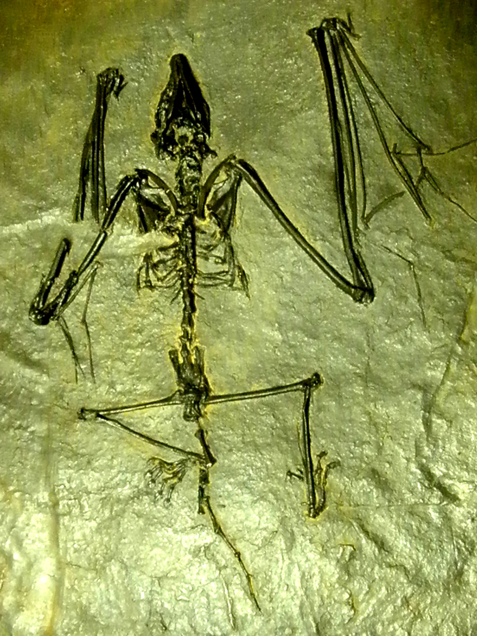 Fossil of Archaeonycteris, an extinct bat Took the photo at Museo di Storia Naturale, Milano